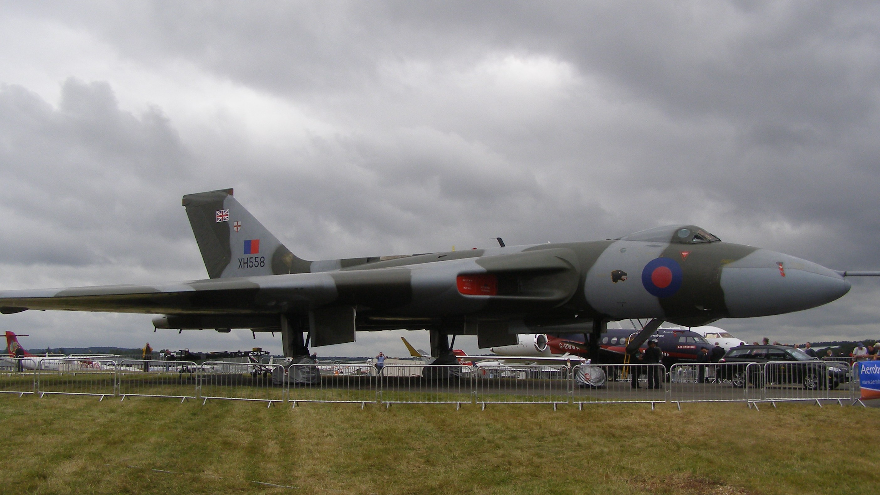 Avro Vulcan G-VLCN as XH558 on static display at the Farnborough Airshow 2008